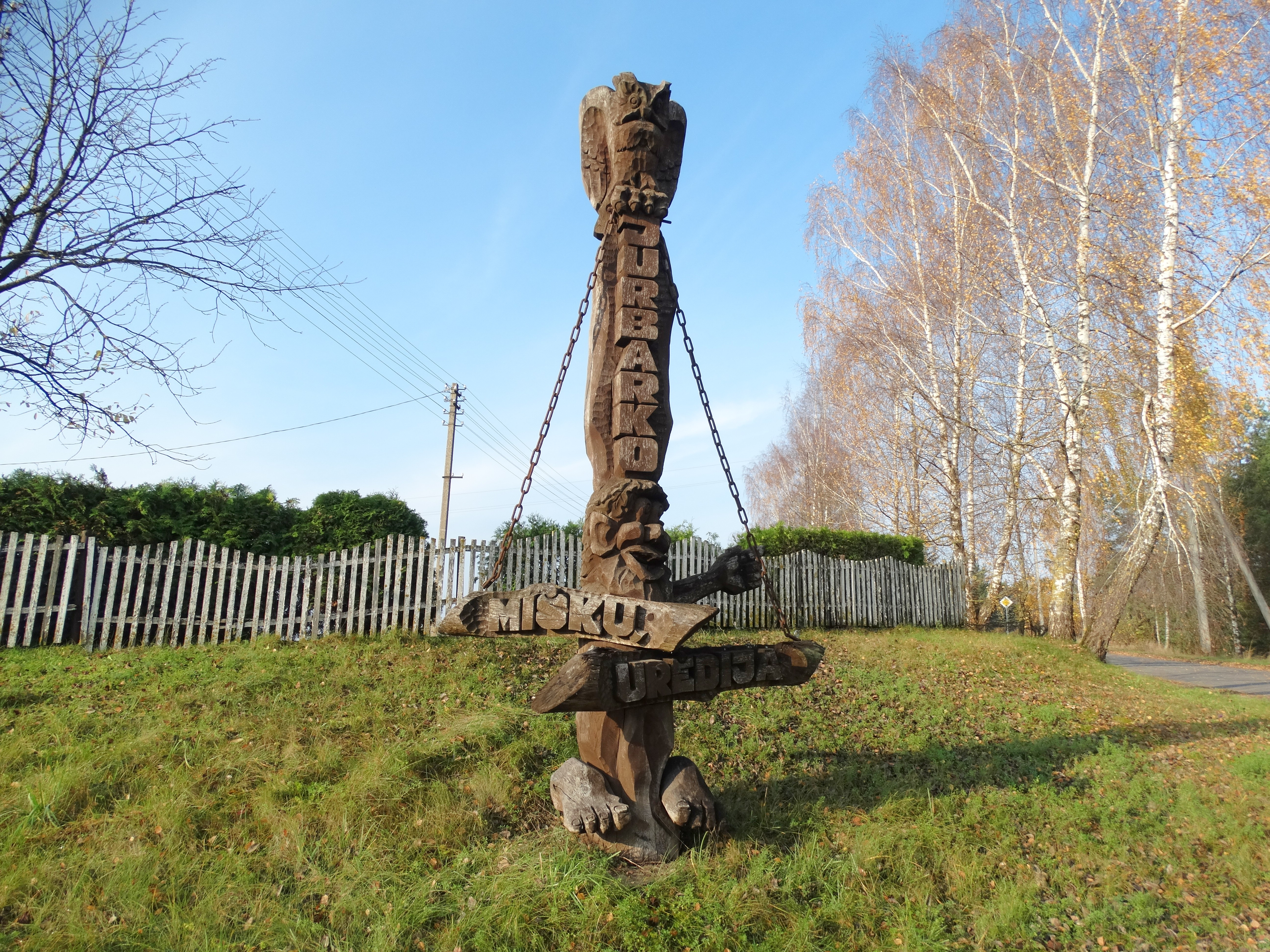 Forest enterprise, Jurbarkas, Lithuania